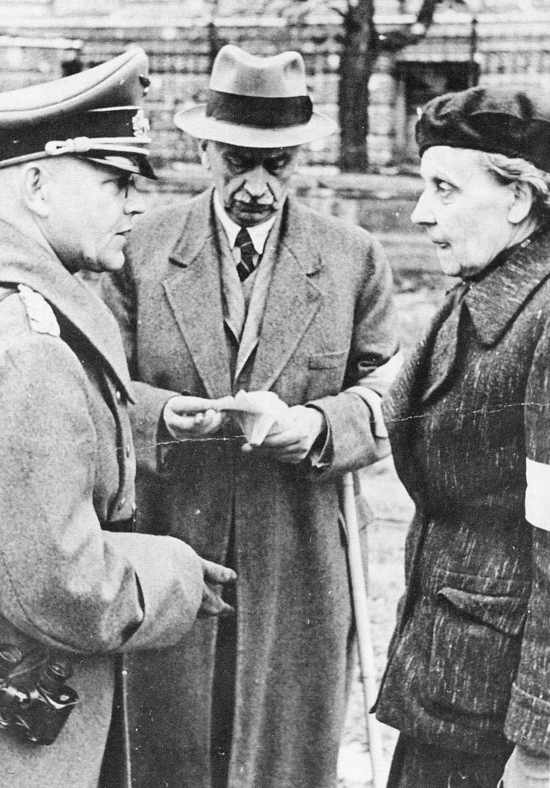 WarsawUprising: Representatives of civilian authorities and Polish Red Cross: Countess Maria Tarnowska and dr Alfred Lewandowski in one of the early talks with Major General Günter Rohr about evacuation of civilian population from Warsaw.